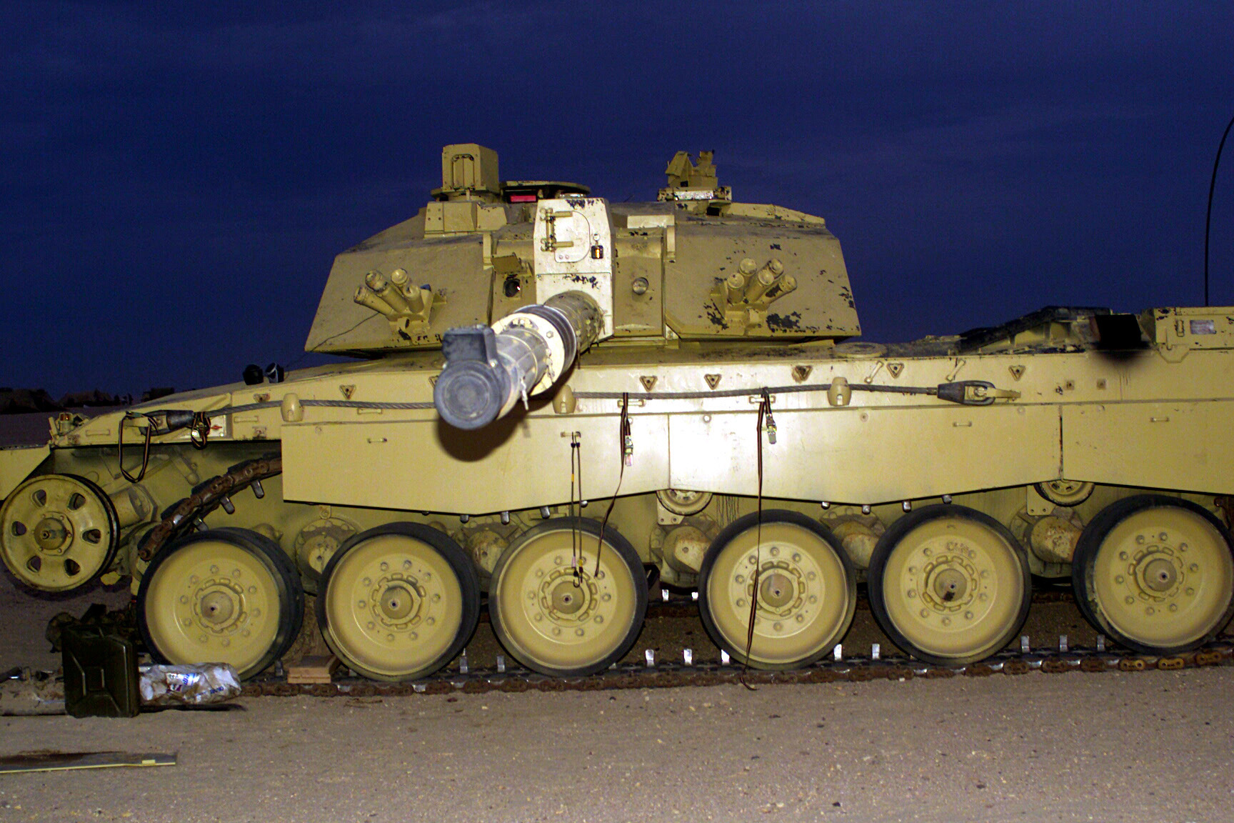 A British Challenger 2 Main Battle Tank (MBT) visits Camp Coyote during Operation ENDURING FREEDOM.